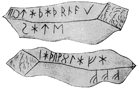 Gummarp runestone